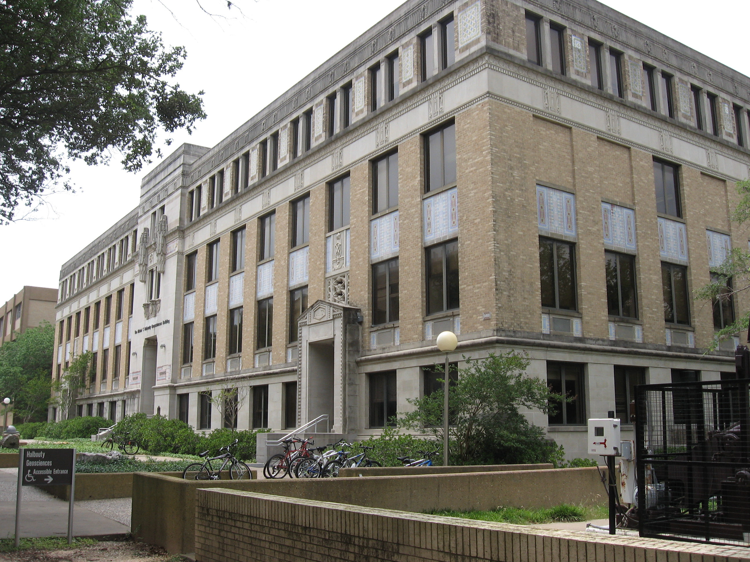 Michel T. Halbouty Geosciences Building at Texas A&M University, named after Michel T. Halbouty